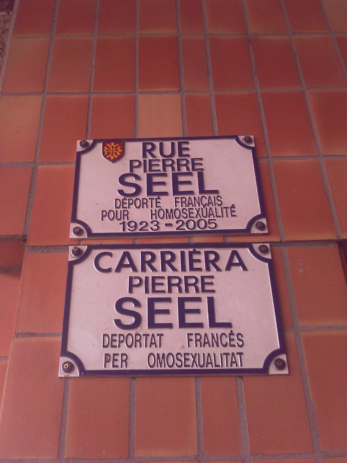 This file depicts the name plate of a street in the French city of Toulouse that was named after Pierre Seel, who suffered deportation under the Nazis on the basis of homosexuality.